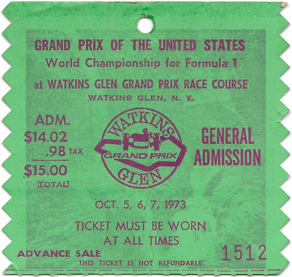 Ticket for the 1973 United States Grand Prix at Watkins Glen race course